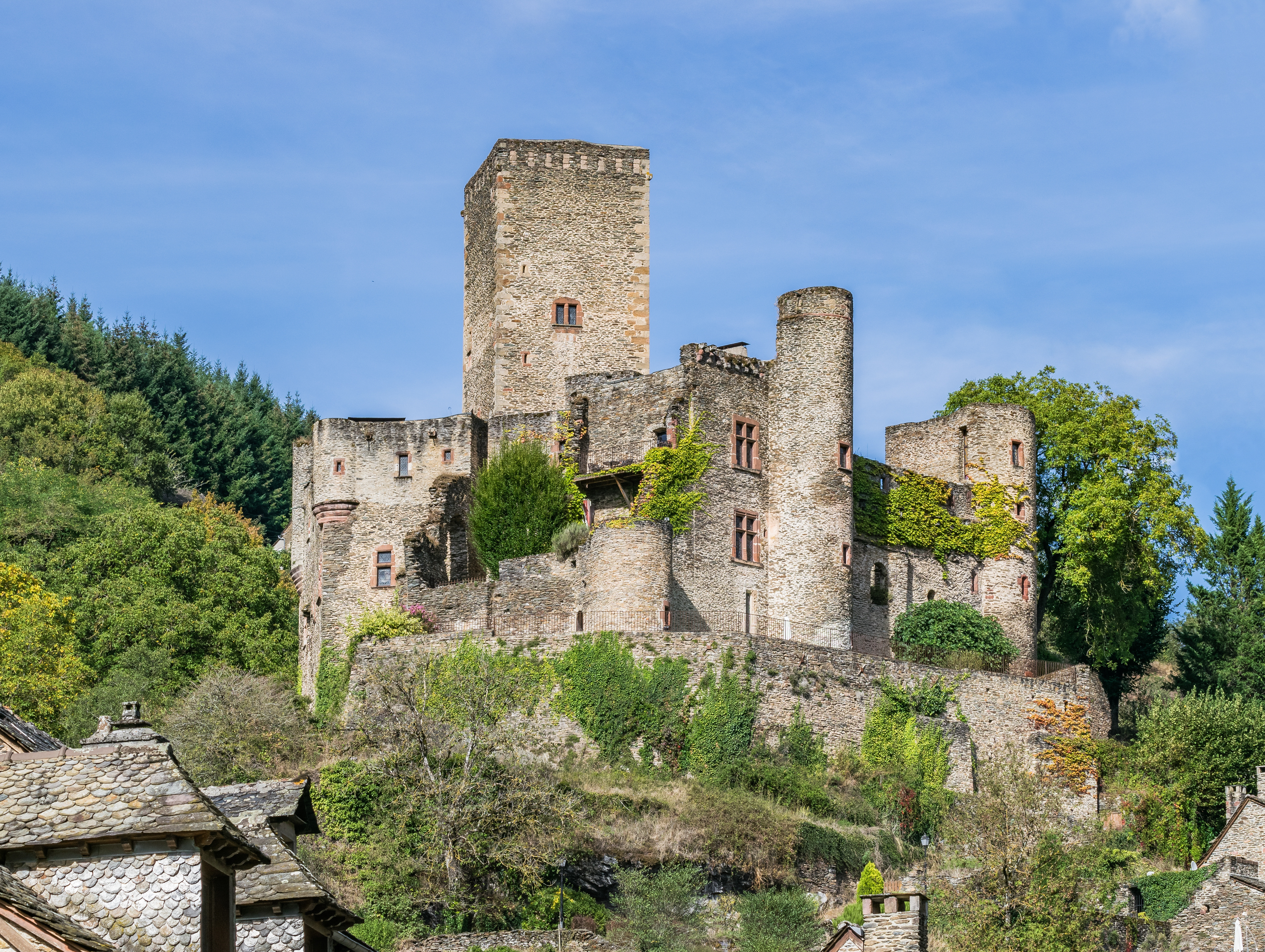 Castle of Belcastel, Aveyron, France .